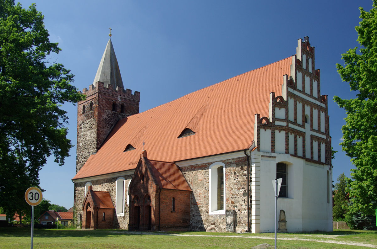 Church of Komptendorf, Brandenburg, Germany